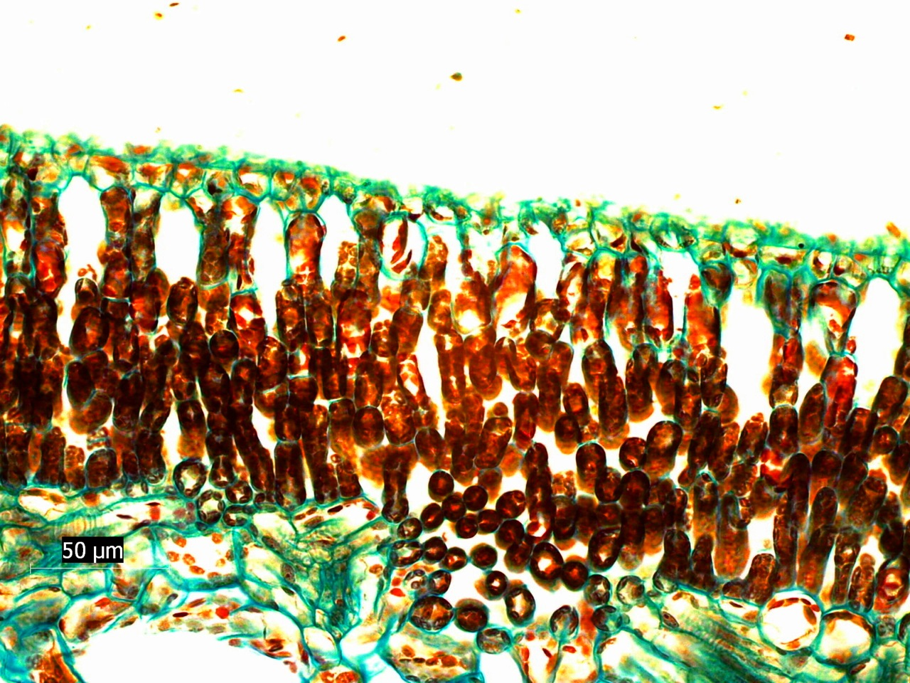 Hydrophytic leaf Magnified and Stained Microscope Slide